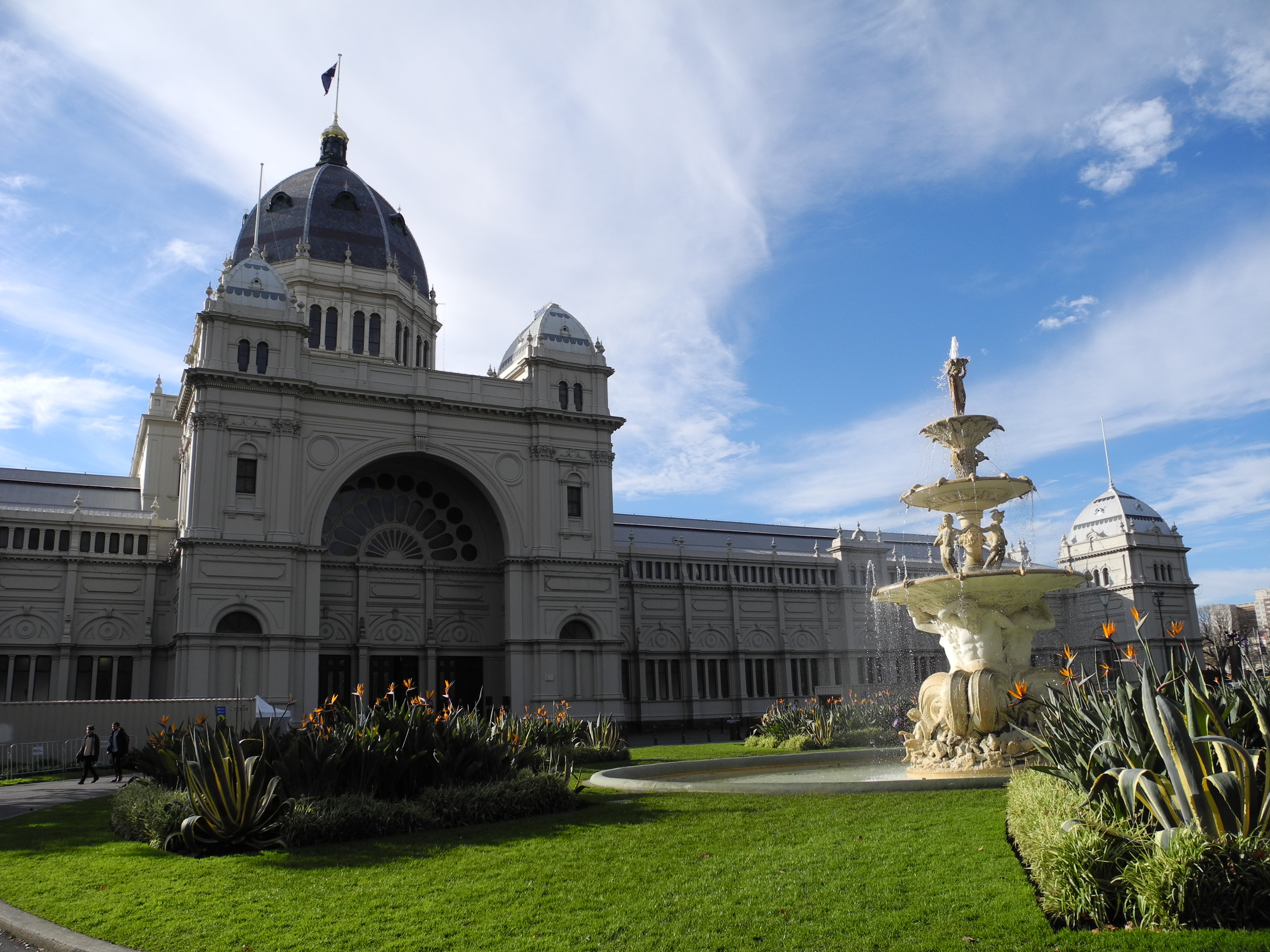 A closeup of the fountain and front of the Royal Exhibition Building. Melbourne, Australia.